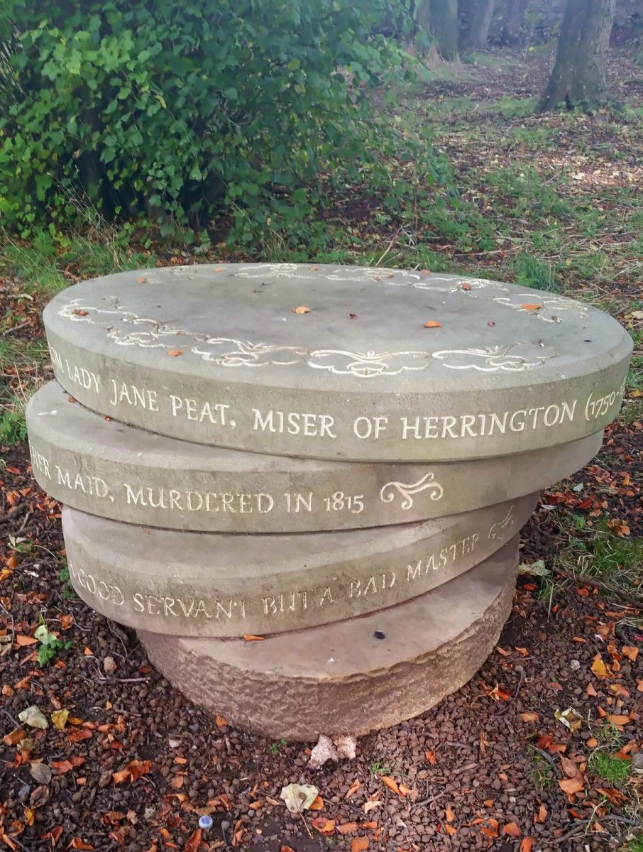 Coin sculpture Herrington Park